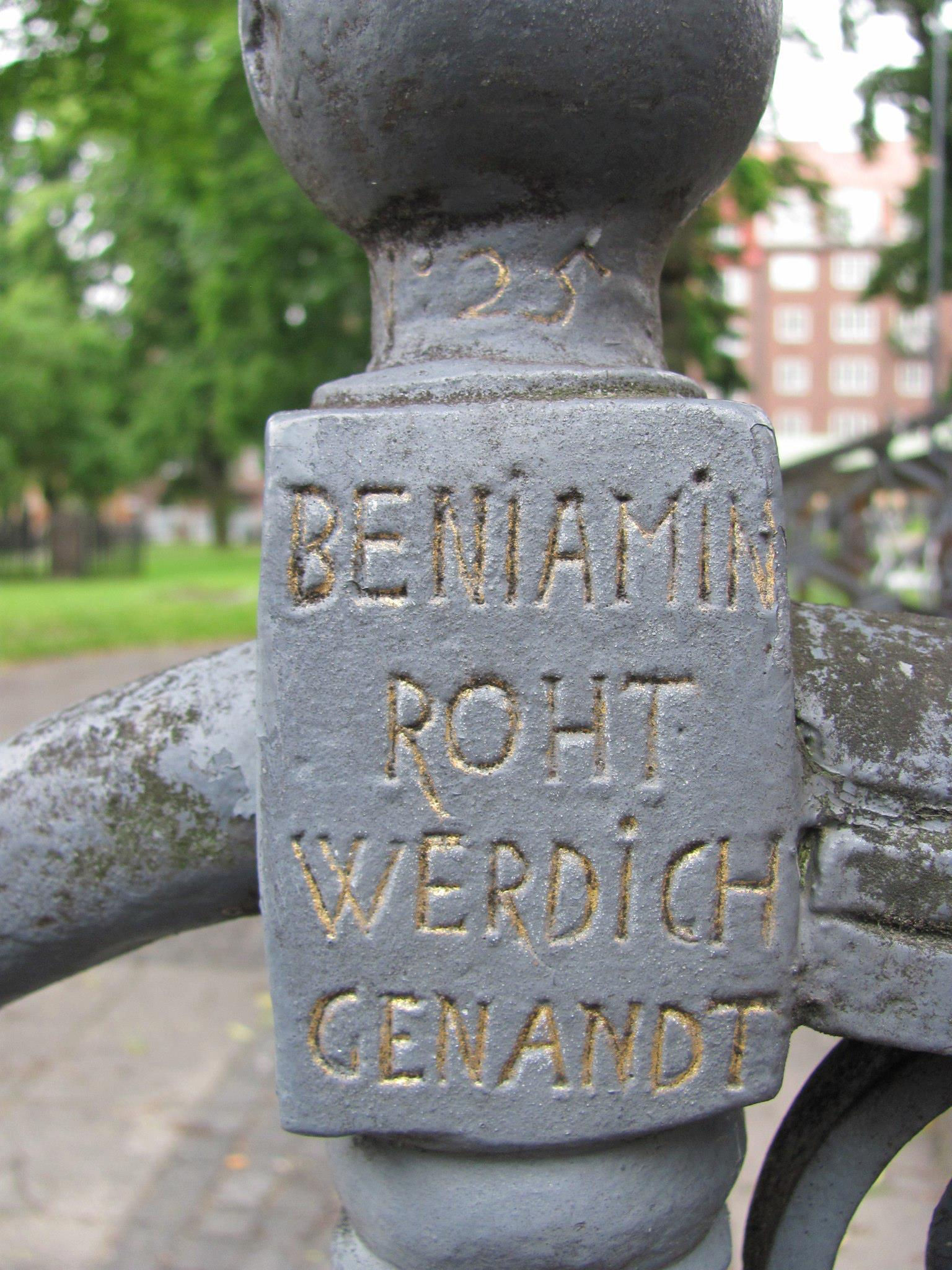 Markings from Charles XII's Stair at Katarina Church in Stockholm, Sweden. Made by Benjamin Roth.